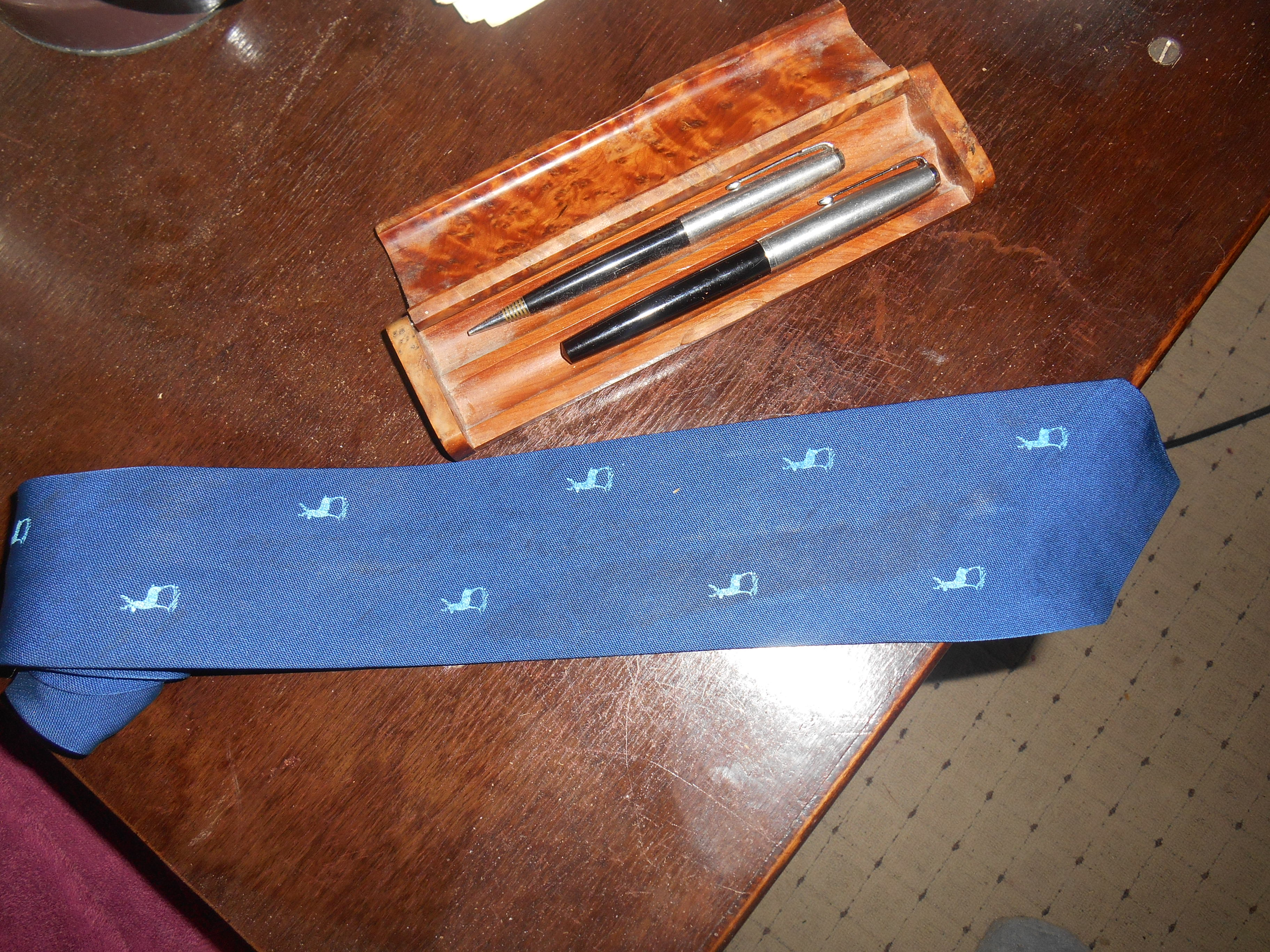 An old school tie from Heathcote School, Stevenage received in 1986